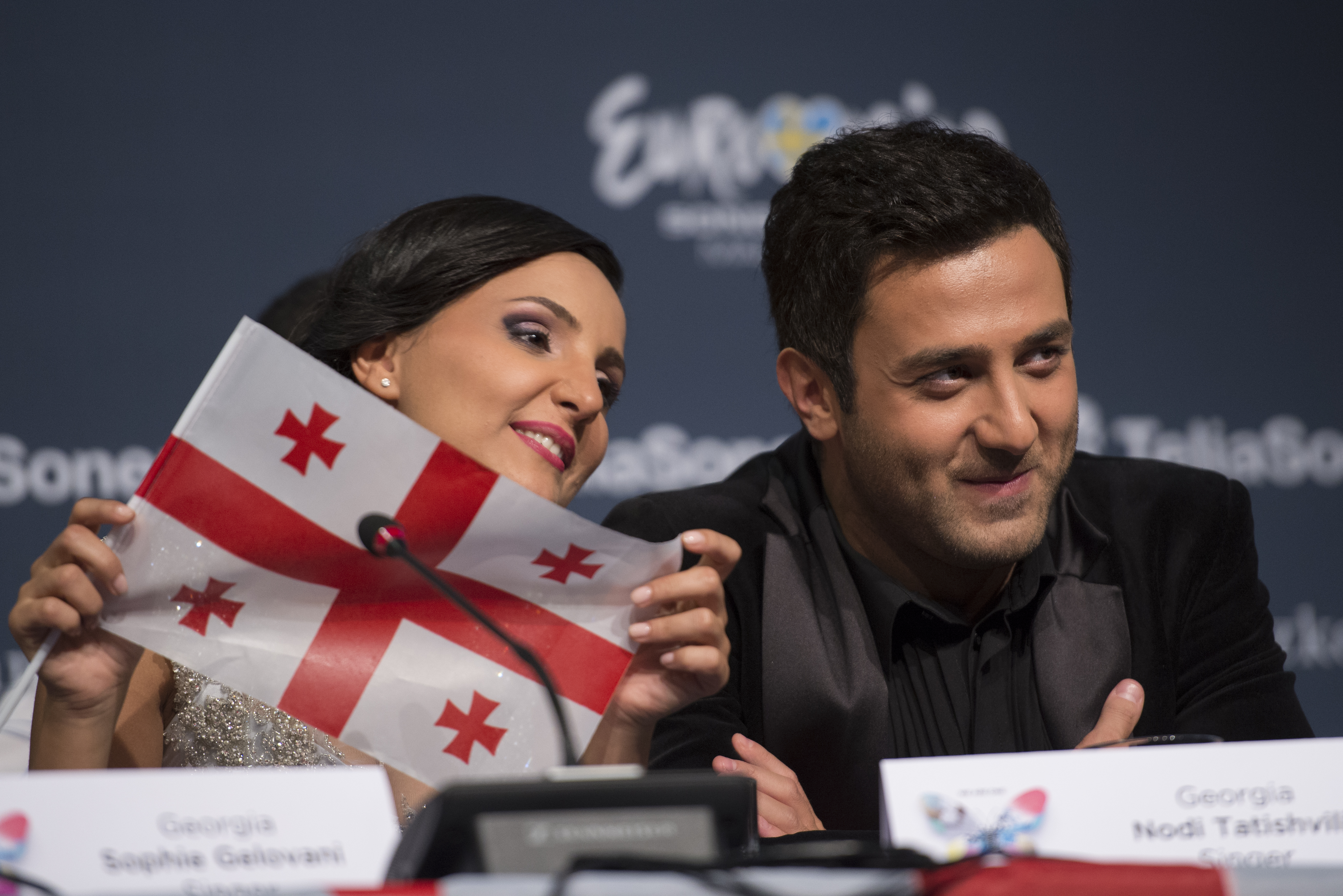 Nodiko Tatishvili and Sopho Gelovani at a press conference during the Eurovision Song Contest 2013 Malmö. (Help translate this text)